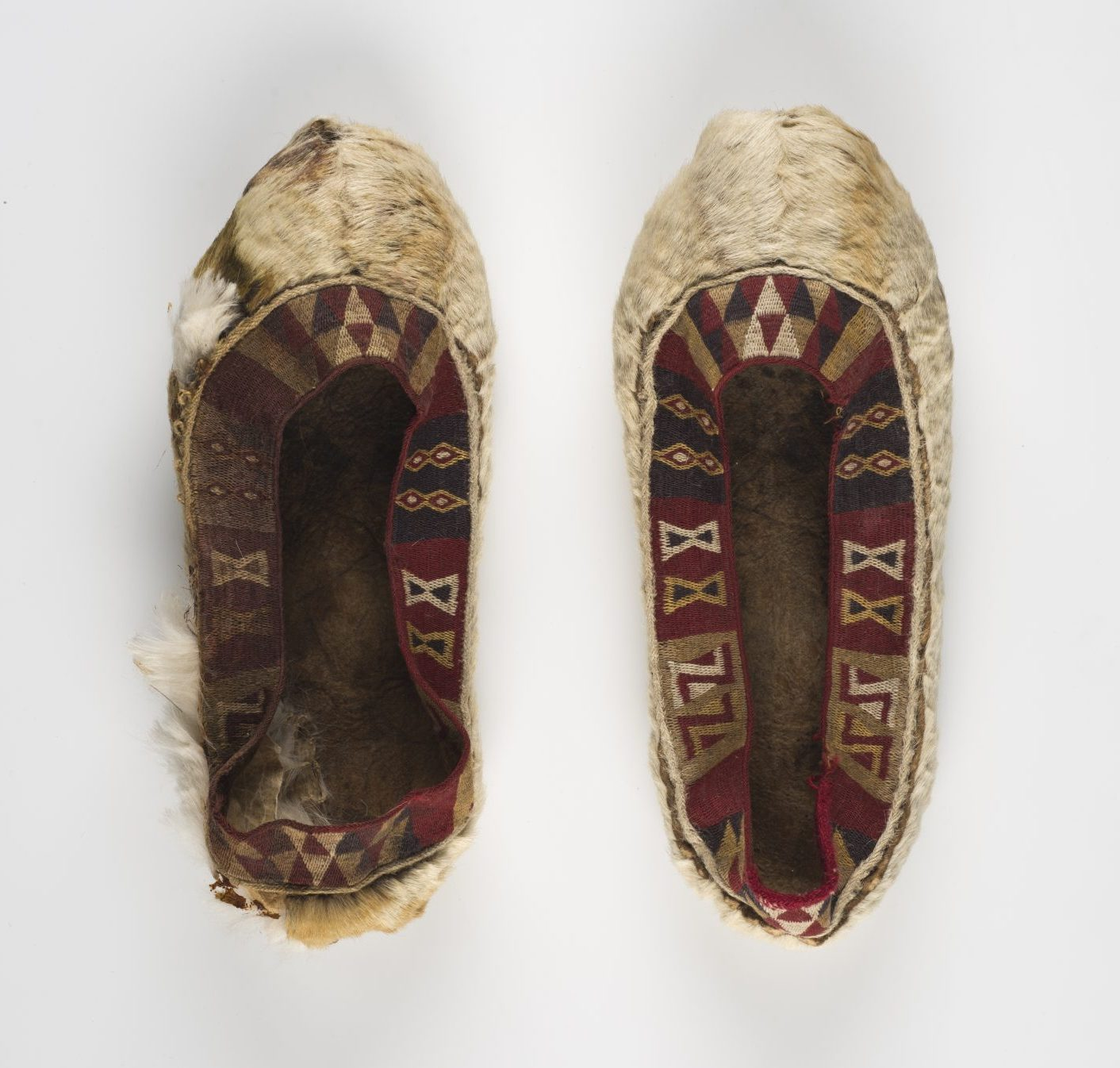 Pair of Inca shoes made of llama and alpaca wool.